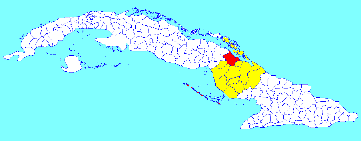 A map of the municipality of Esmeralda (shown in red) within the Province of Camagüey (yellow) and Cuba.